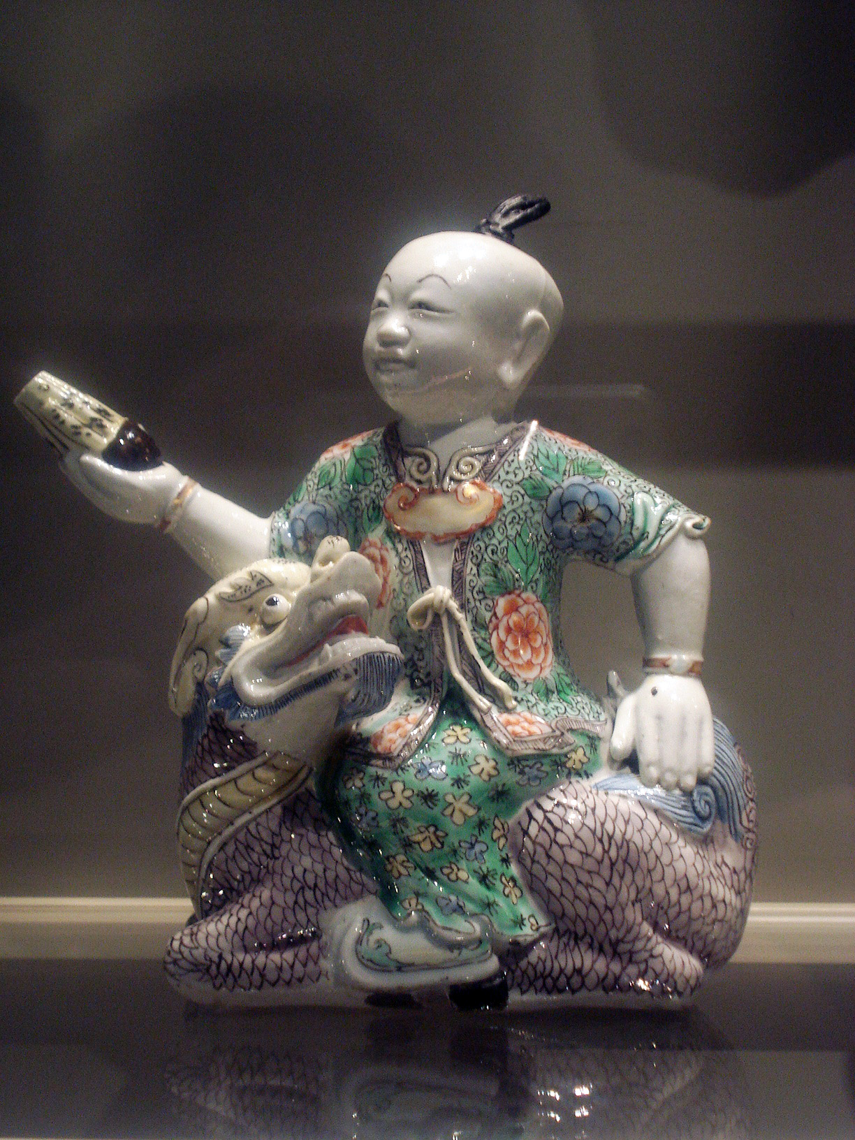 Teapot in the Shape of a Boy Astride a Qilin (c. 1700) Qing dynasty, Kangxi reign (1662-1722). Porcelain with famille vert enamels and gilt. In the collection of the Taft Museum of Art